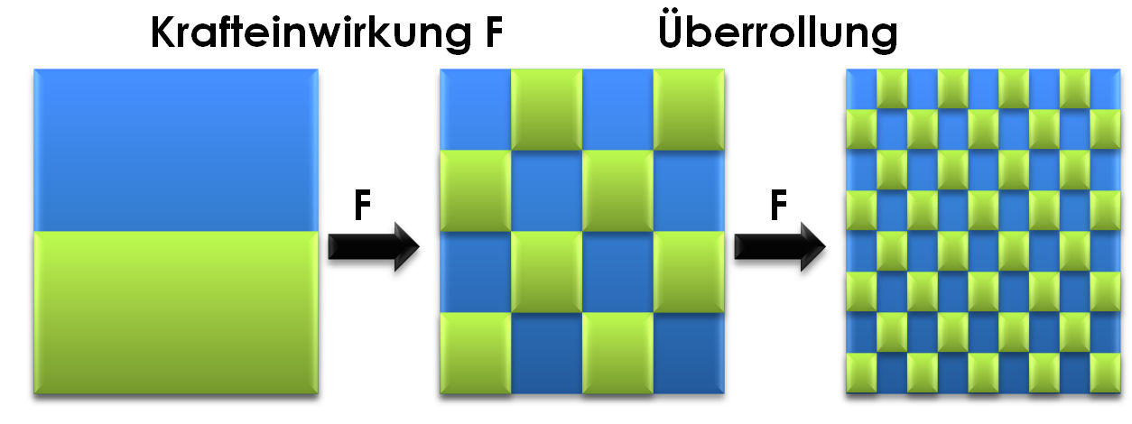 Schema Dispersives Mischen